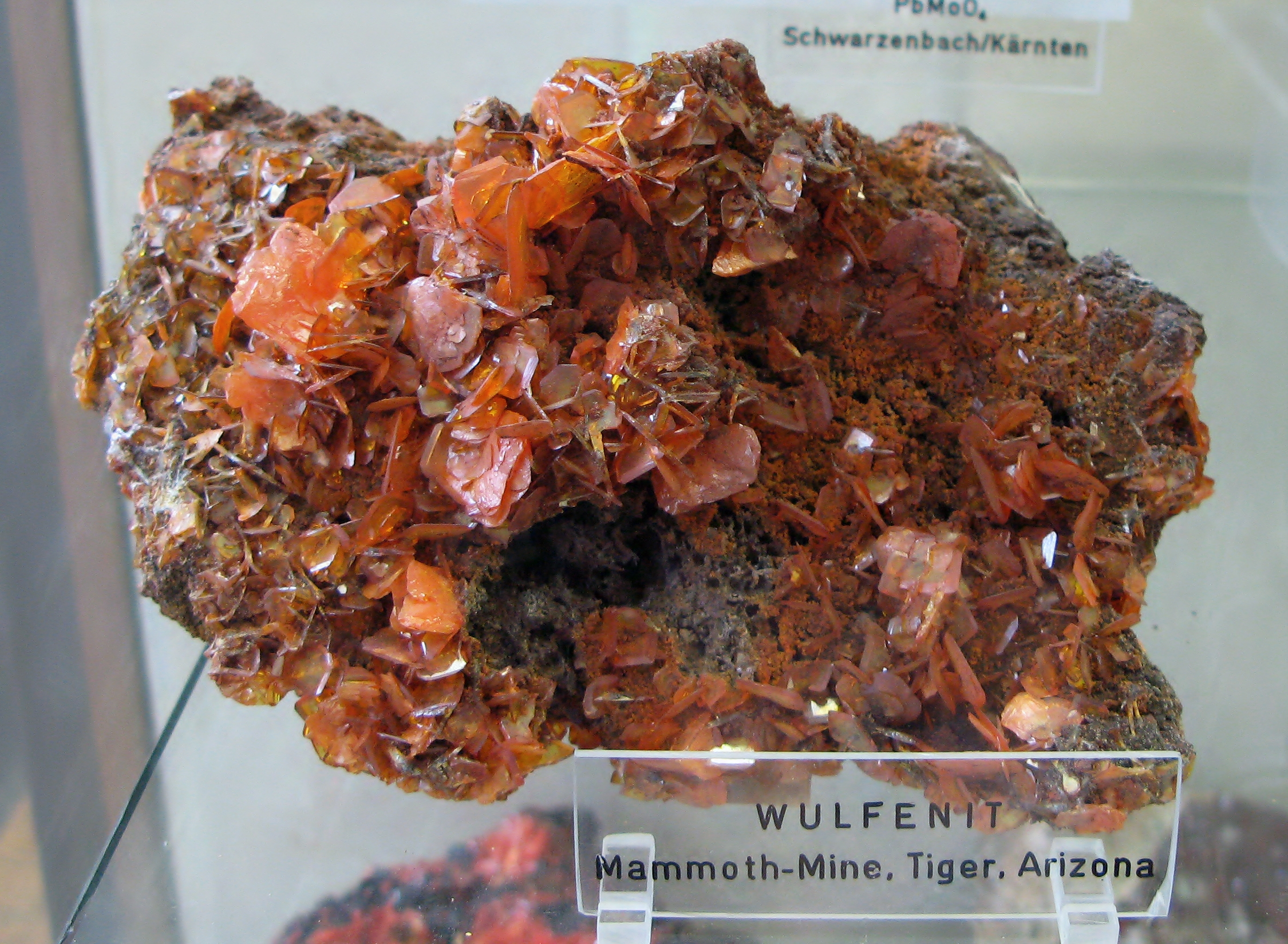 Wulfenite - LOcality: Mammoth-Mine, Tiger, Arizona - Exposed in the Mineralogical Museum, Bonn, Germany